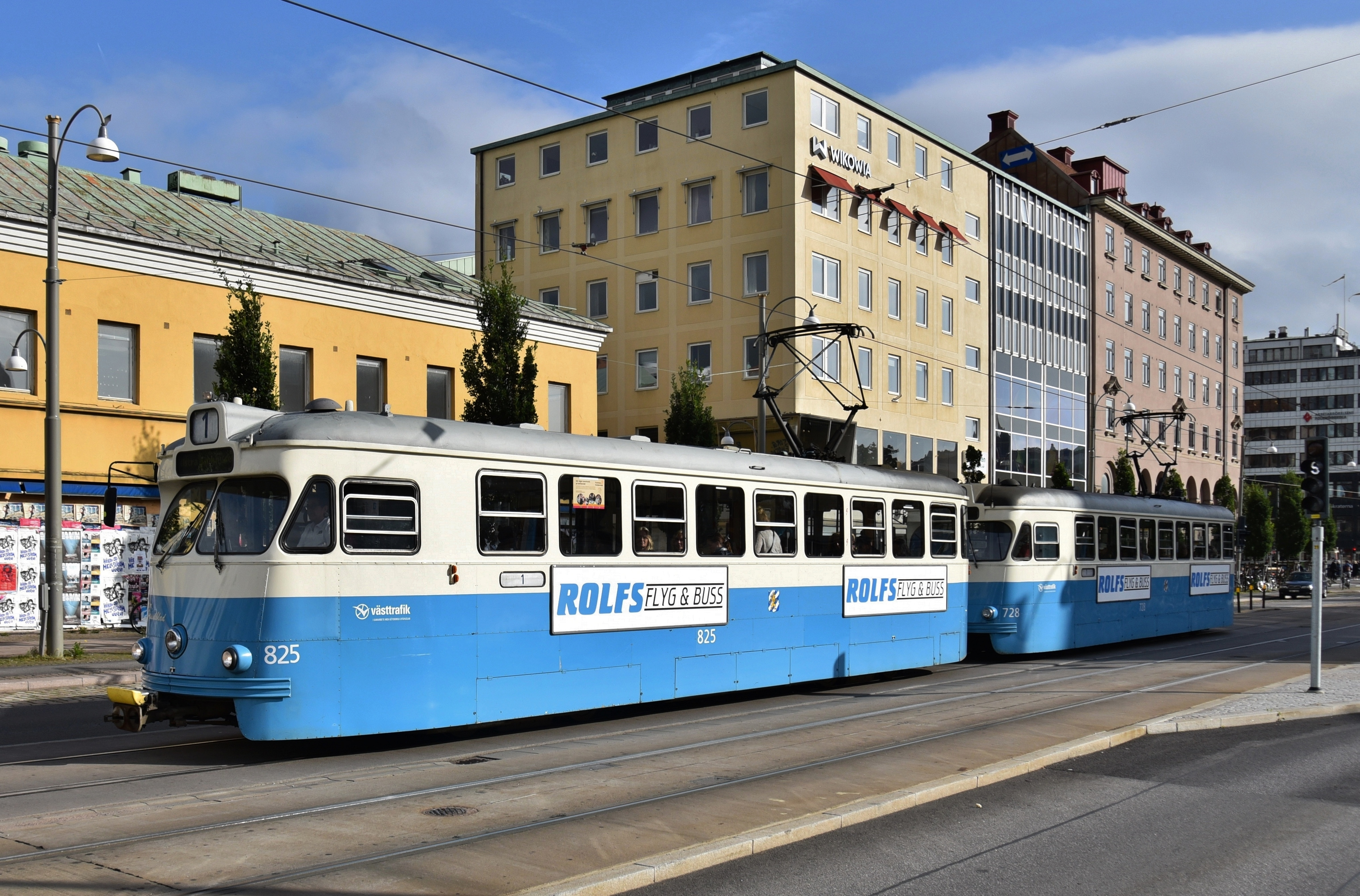 Göteborgs Spårvägar trams nos. 825 and 728 operating a line 1 service in Järntorgsgatan, Gothenburg, Sweden